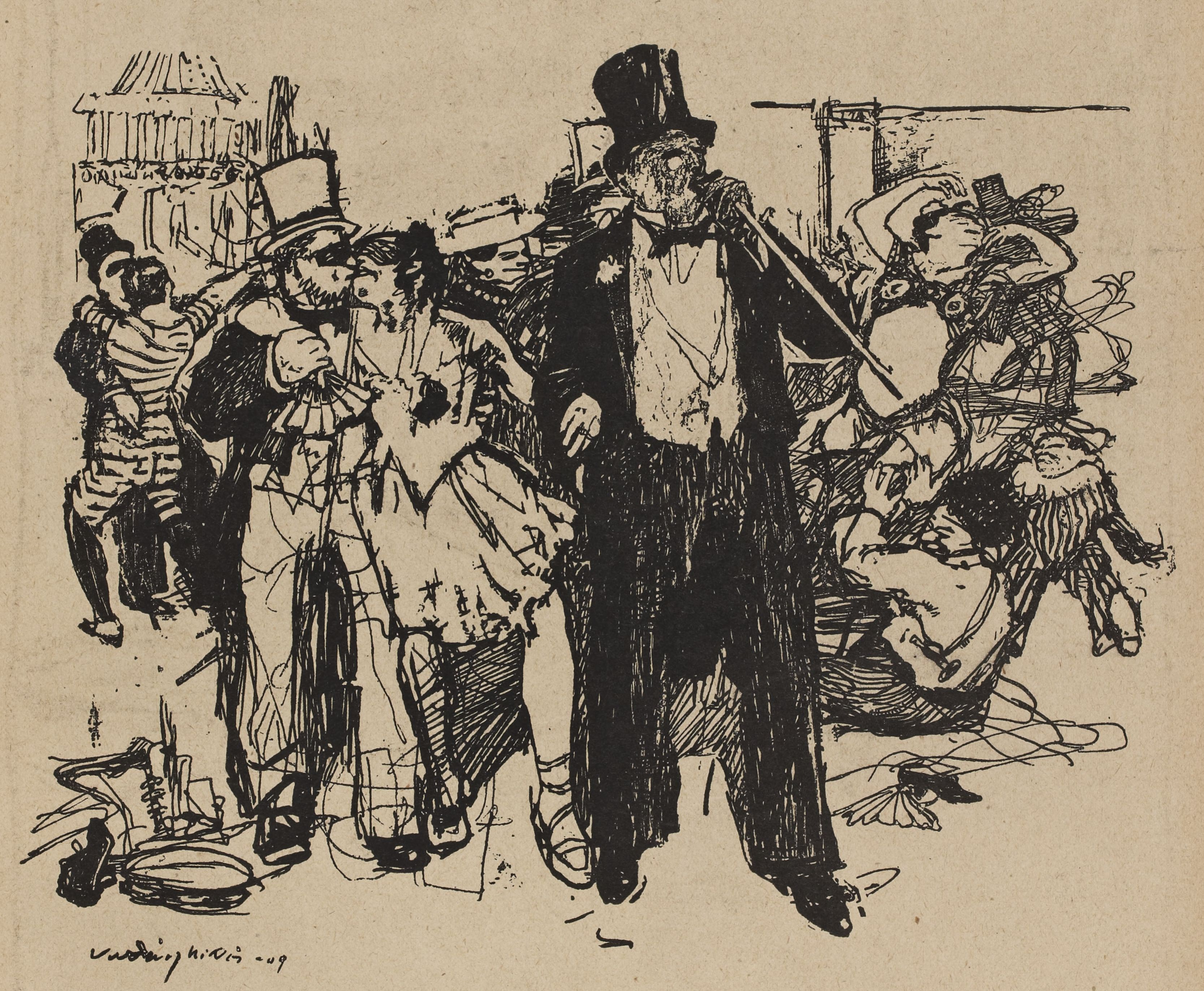 Miklós Vadász (1881–1927) Alternative names Nikolaus VadászDescriptionHungarian painter, draughtsman and illustratorDate of birth/death 27 June 1881 10 August 1927 Location of birth/death Budapest Paris Work location Paris (1919-1927)Authority control : Q1400818 VIAF: 121480466 ULAN: 500109848 GND: 1044273755 NKC: xx0220507 RKD: 78915 creator QS:P170,Q1400818 Vadász, Miklós (1881-1927), "L'Assiettte au Beurre" - Les p'tits jeun' hommes, n. 422, 1 mai 1909. Text: “AU BAL DE LA MI-CARÊME”